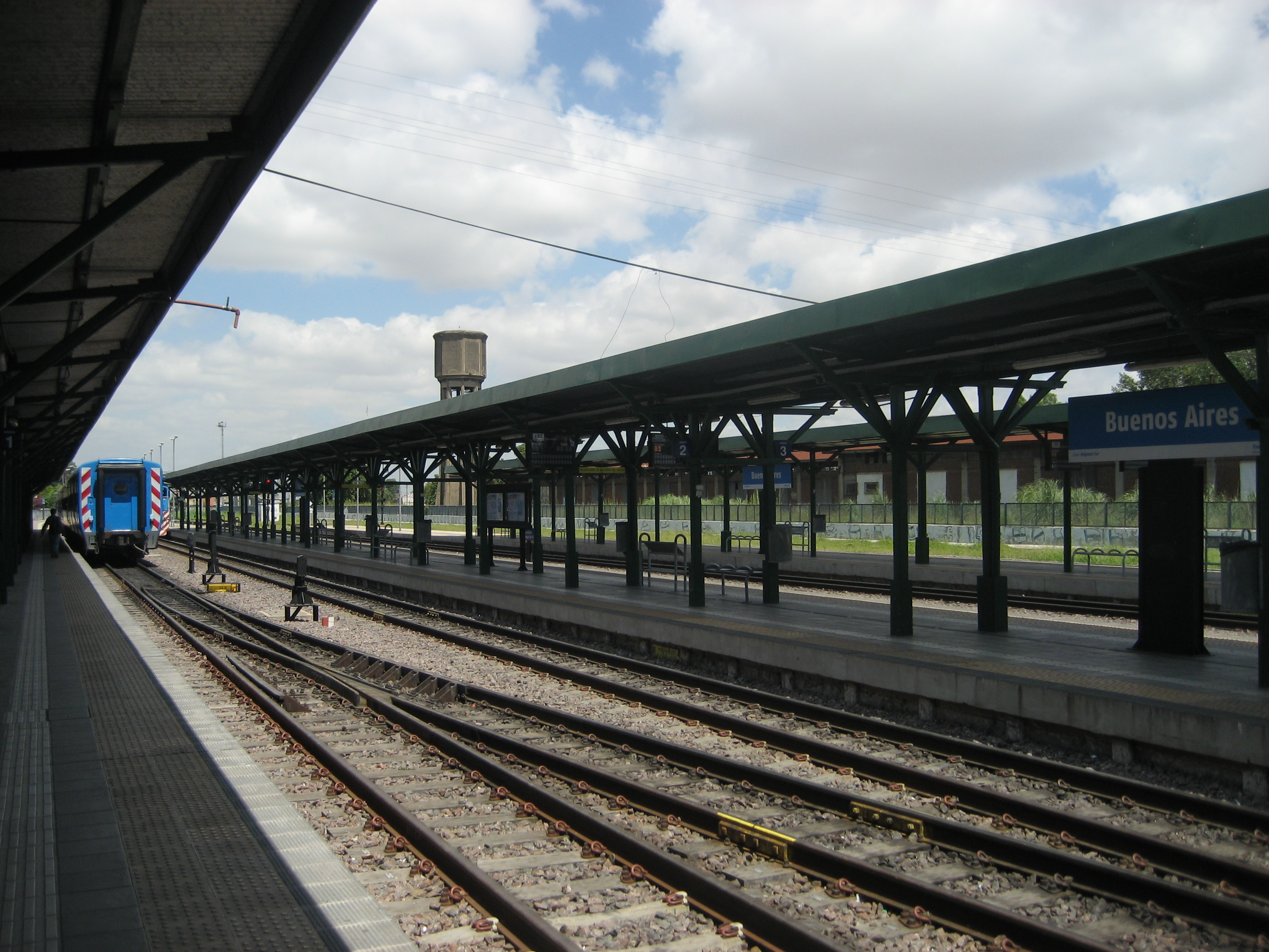 Buenos Aires train station of the Belgrano Sur line, City of Buenos Aires, Argentina